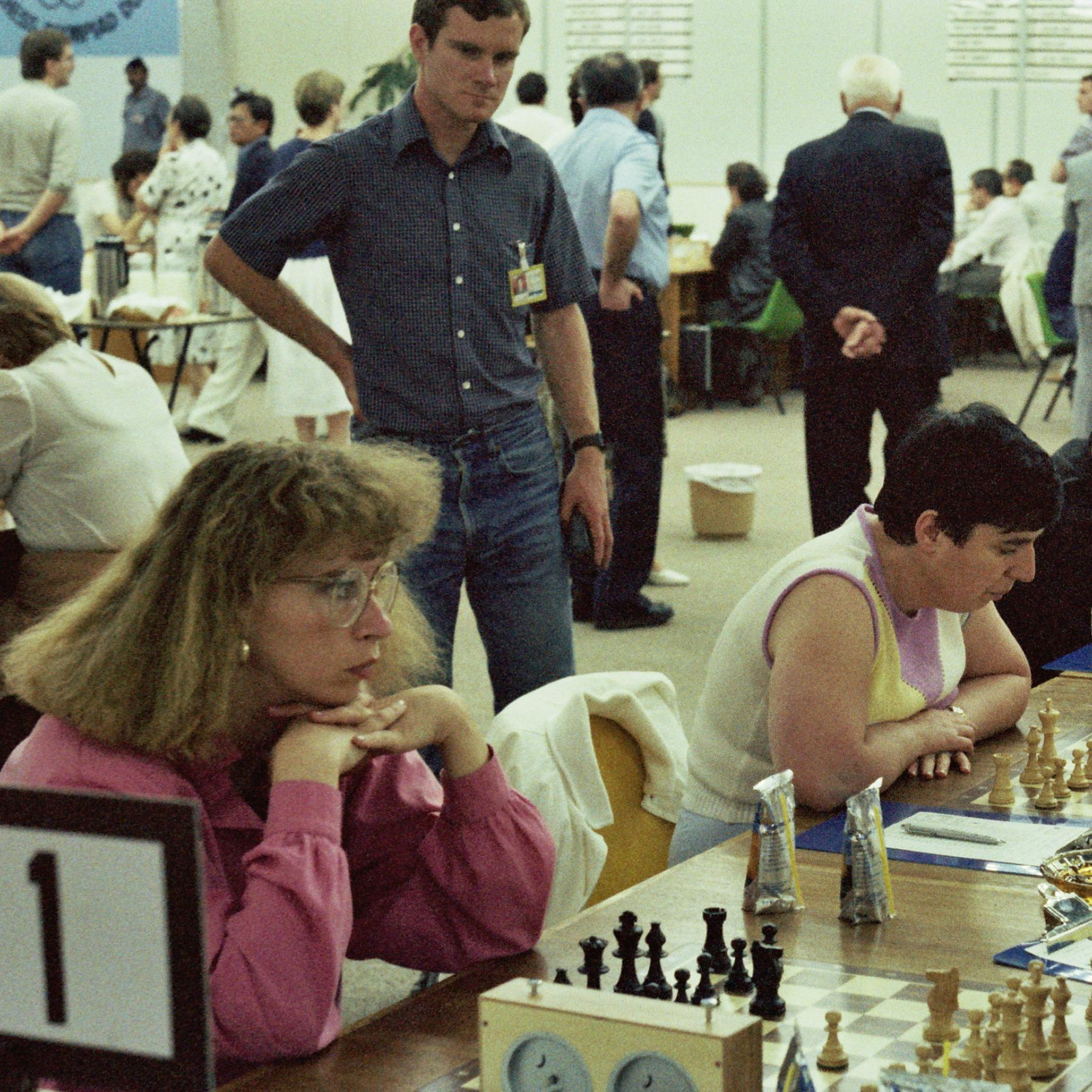 Elena Akhmilovskaya, John Donaldson and Nona Gaprindashvili, Chess Olympiad 1986 in Dubai, Photographer Gerhard Hund.